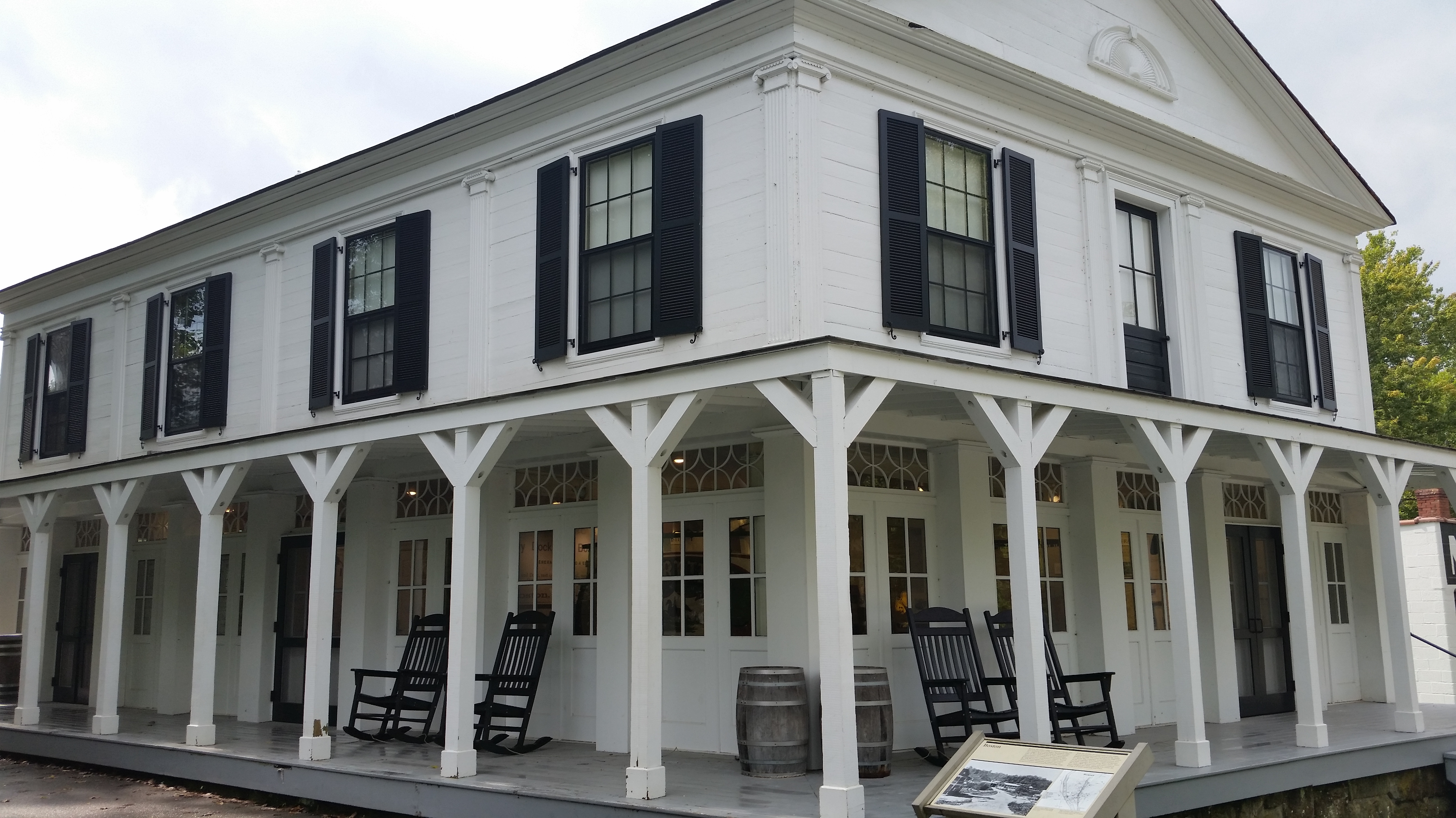 Cuyahoga Valley National Park Boston Store Visitor Center